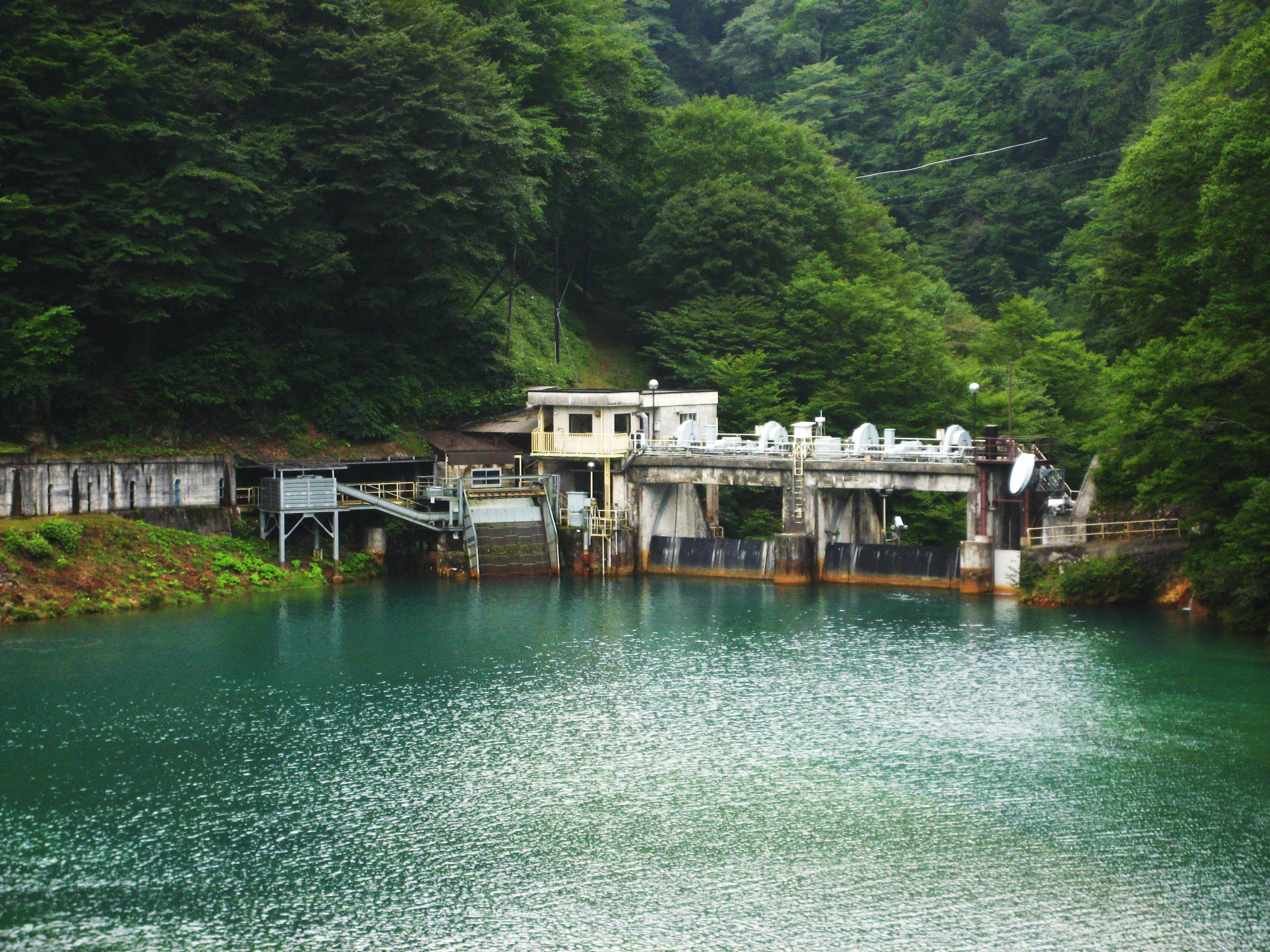 Shirasuna Dam and lake.